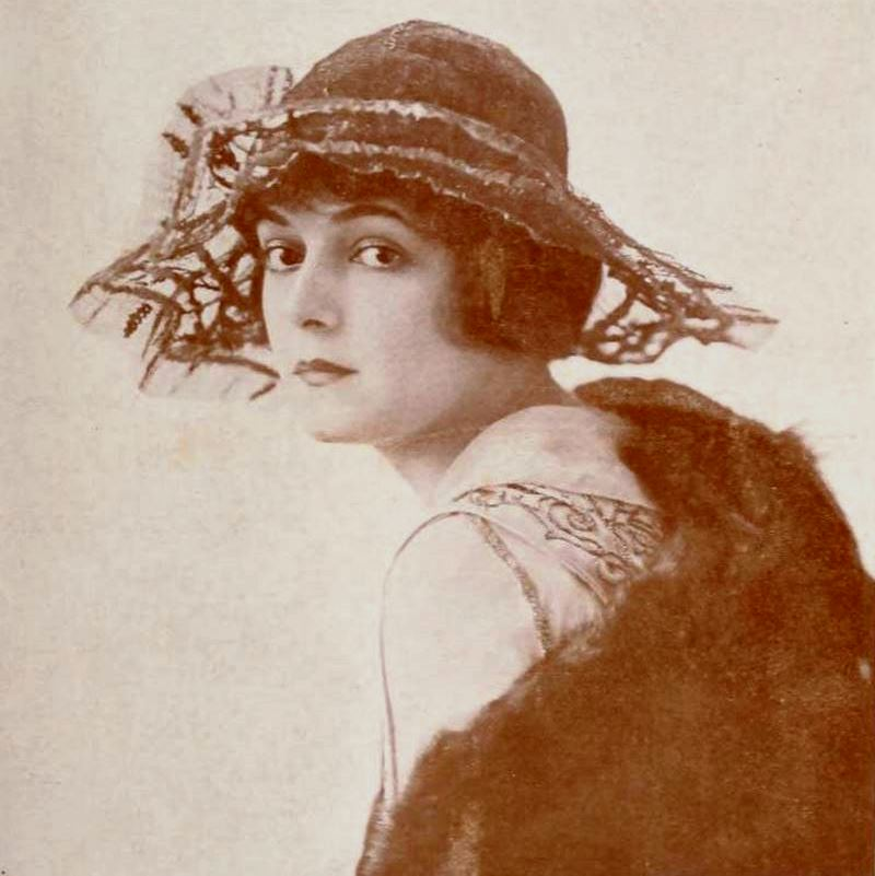 American actress Barbara Castleton, on the cover of the November 3, 1917 Exhibitors Herald.